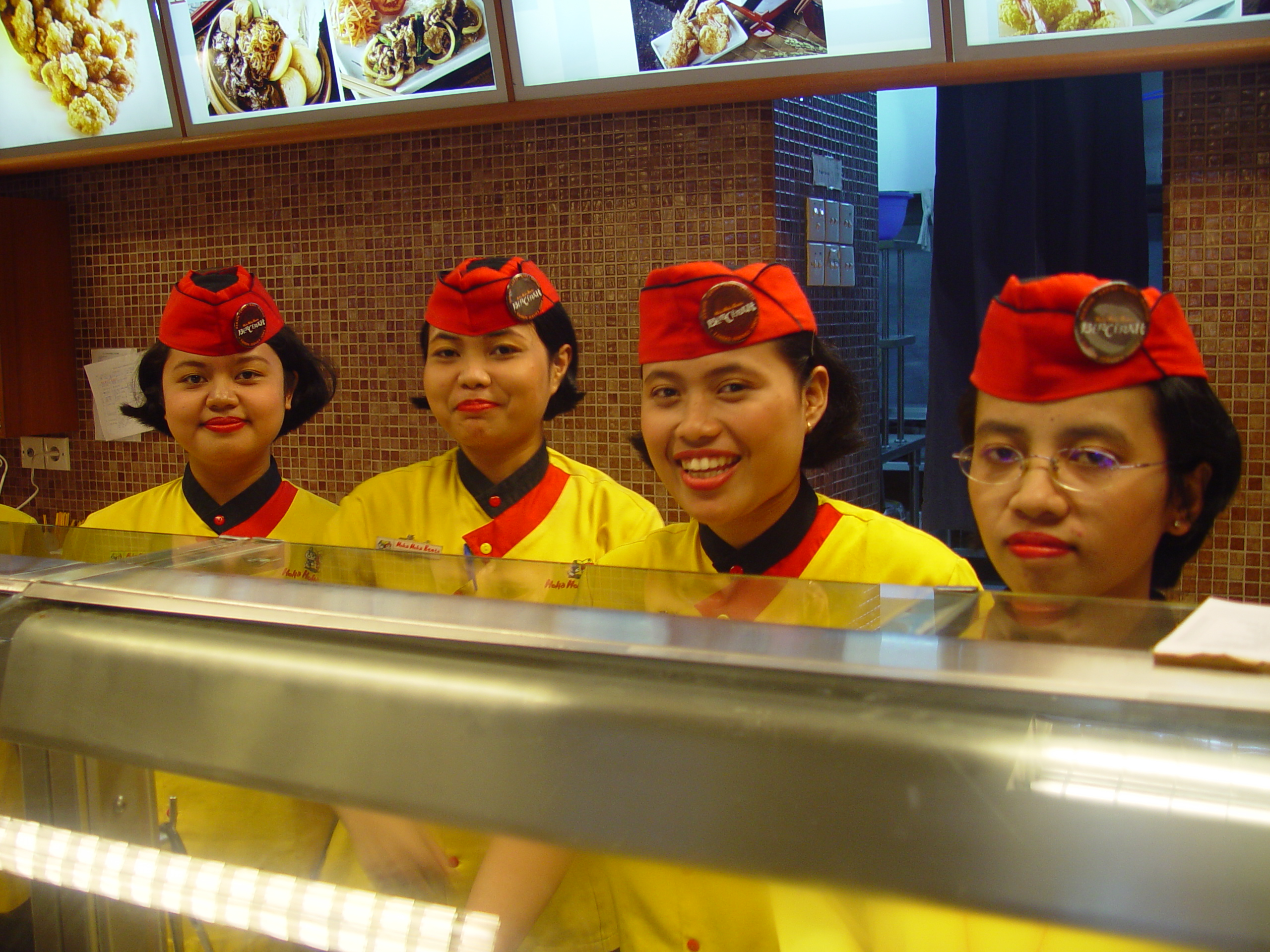 Mall cultural in Jakarta, Indonesia.